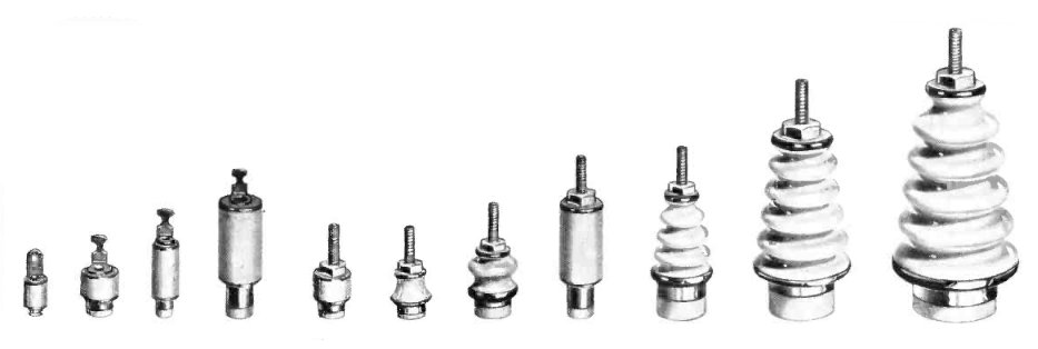 An assortment of electrical bushings made by the American Lava Corp. in a 1954 advertisement in an electronics magazine. A bushing is a hollow insulator that allows a conductor to pass through a metal wall without making contact. These are made of alumina ceramic (porcelain). They have operating voltages that range from a few hundred to about 10 thousand volts (righthand one).